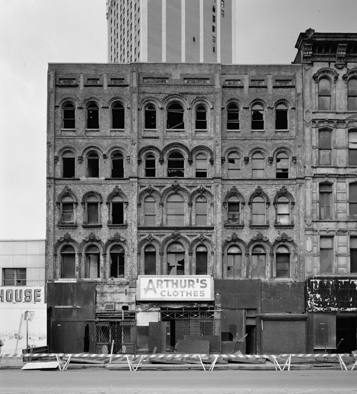 32-42 Monroe Avenue, Detroit